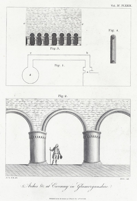 Abstract: Plans showing the arches at Ewenny Church with a figure in the foreground.